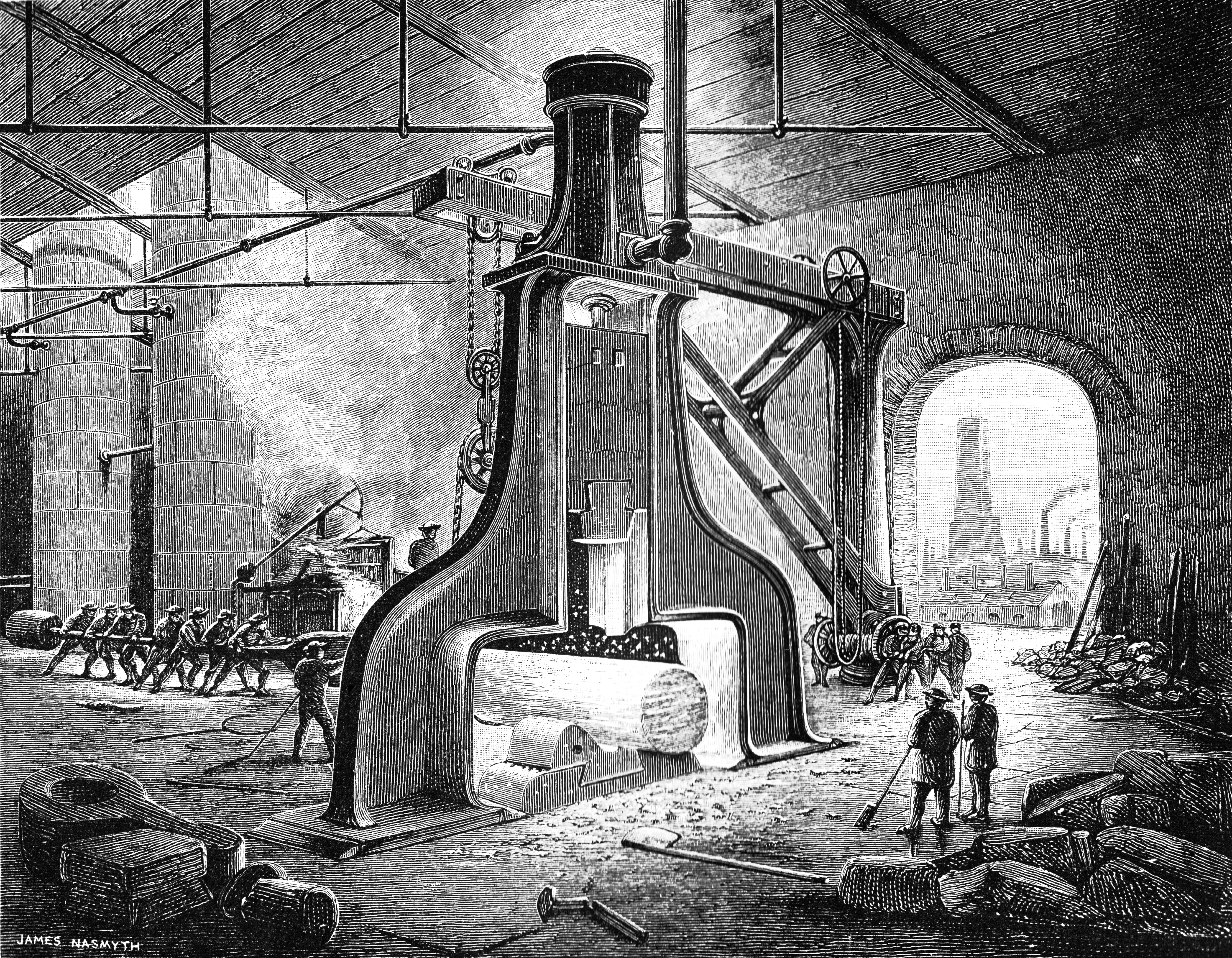 Nasmyth's Steam Hammer